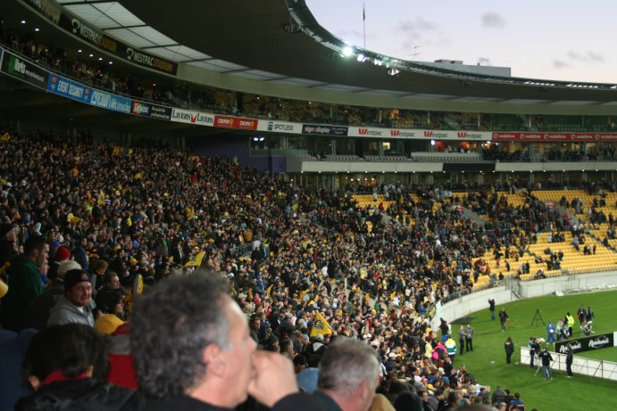 Shot of crowd at Wellington Phoenix vs Melbourne Victory game at the Westpac Trust Stadium, looking towards the Yellow Fever zone.